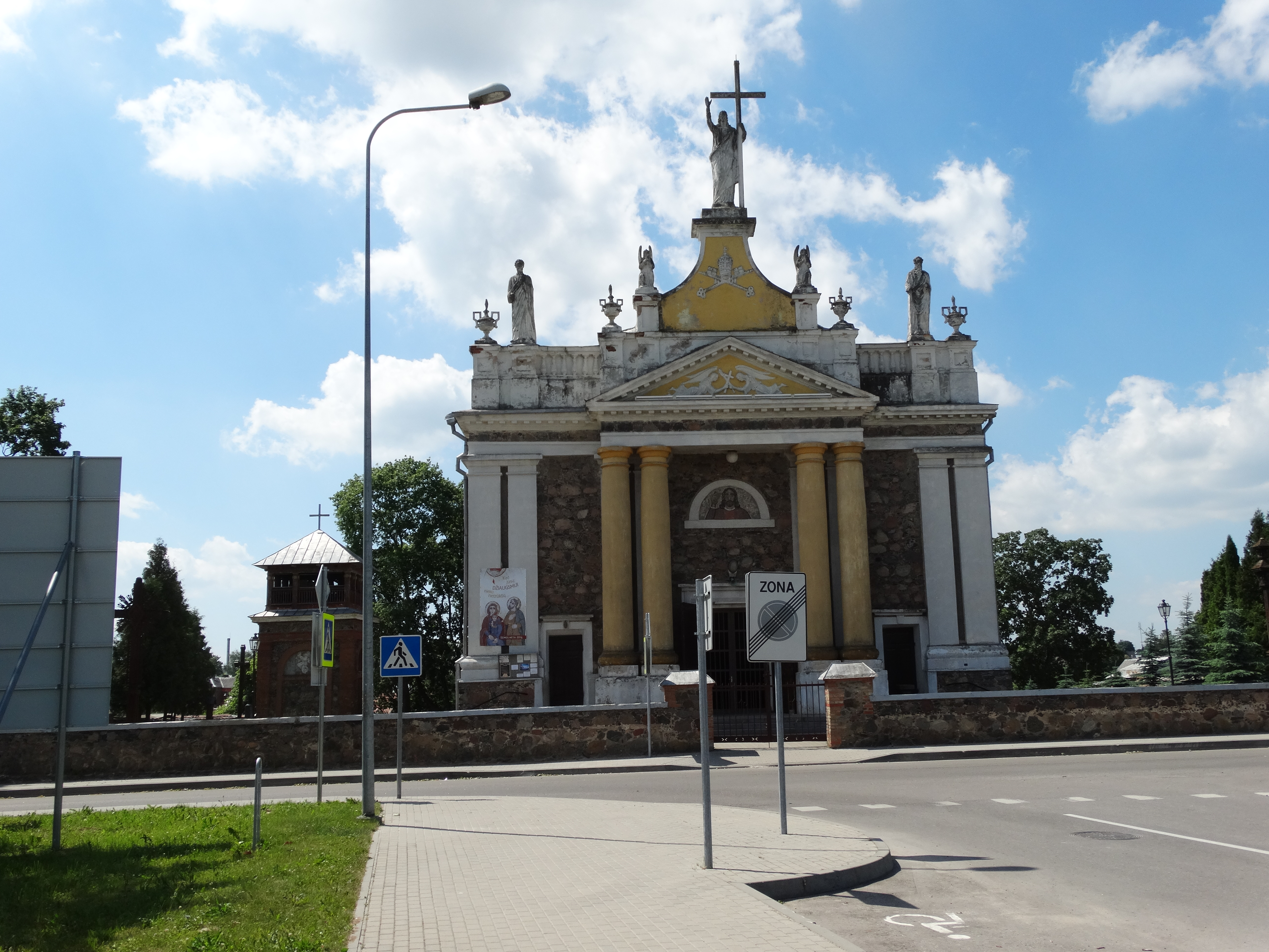 St. Peter and St. Paul's Church, Ukmergė, Lithuania